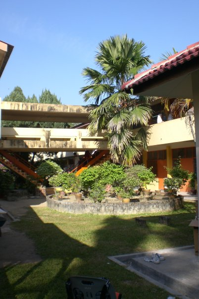 Mini Garden in the middle of SMKP